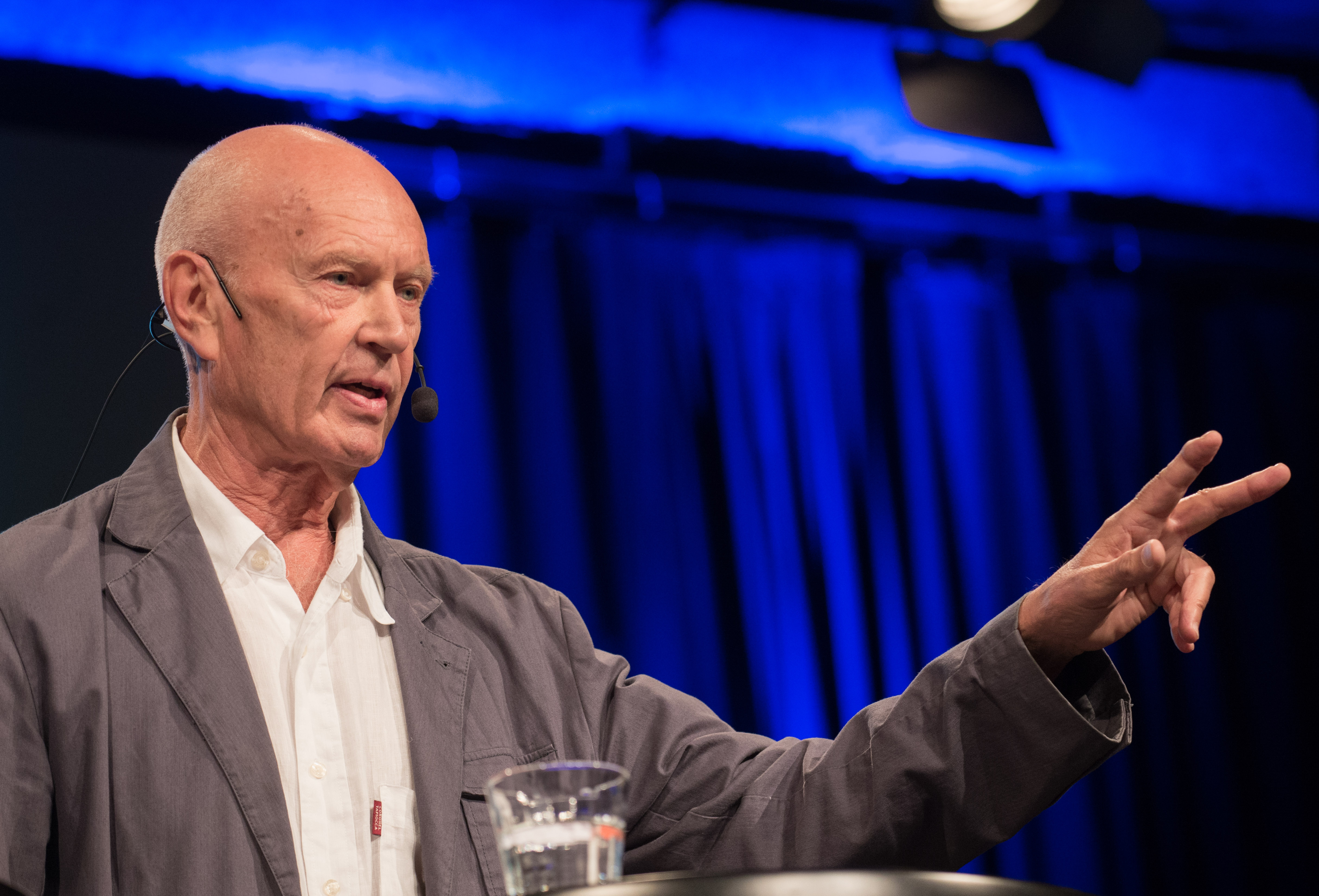 NATO debate at Kulturhuset-Stadsteatern in Stockholm 2015.